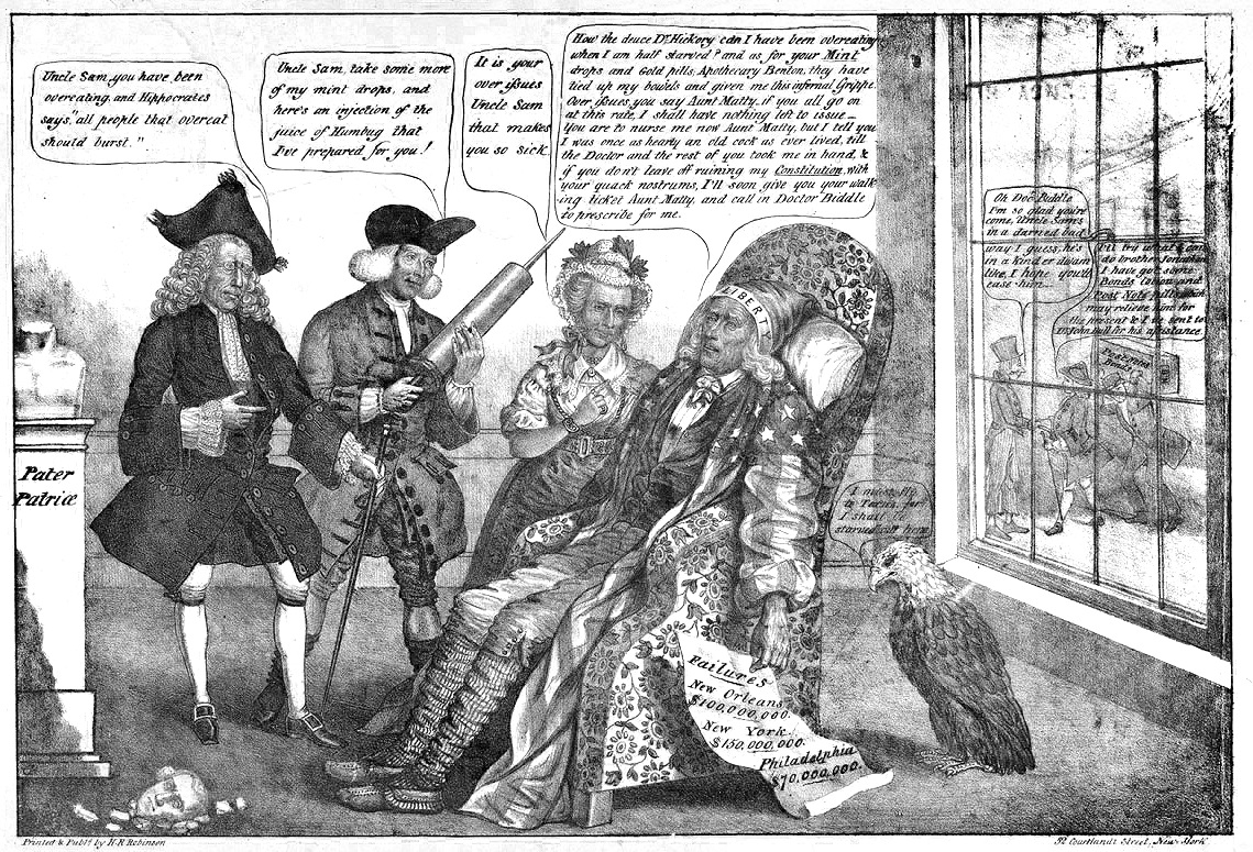 "Uncle Sam Sick With La Grippe", an 1837 lithograph designed by Edward Williams Clay and engraved and published by H.R. Robinson of New York City, New York, in the United States. This political satire depicts the effects of the Panic of 1837. The artist places blame for the severe recession on President Andrew Jackson and his successor, Martin Van Buren, who tried to bar the use of paper and limit money to specie (coin) as the only legal tender. Economists today blame the emphasis on specie for the recession. The scene is an 19th century sickroom. Uncle Sam represents the United States, and wears a liberty cap, a stars-and-stripes dressing gown, and moccasins (all symbols of the United States at the time). As Uncle Sam slumps ill in a chair, his hand holds a piece of paper outlining recent bank failures and their costs. On the left, President Andrew Jackson blames over-expansion for America's economic problems. To Jackson's right, Senator Thomas Hart Benton (a Jackson ally) promotes "mint drops" (coinage) as the proper cure. To Benton's right, President Martin Van Buren (criticized as a "weak old woman" called "Aunt Matty") blames the over-issuing of paper money for the recession. An eagle, also representing the United States, sits on the floor and moans that it will starve to death. A broken bust of George Washington, Father of the Country ("Pater Patriae"), indicates the artist's belief that the nation is falling apart. Seen through the window, Nicholas Biddle, prominent banker and the last president of the Second Bank of the United States, has arrived with the cure ("post notes" and "bonds", e.g., paper money). He is welcomed by Brother Jonathan, another common representation of the United States in the 18th century. Biddle says he will ask "Dr. John Bull" (he will ask banks in the United Kingdom for help).